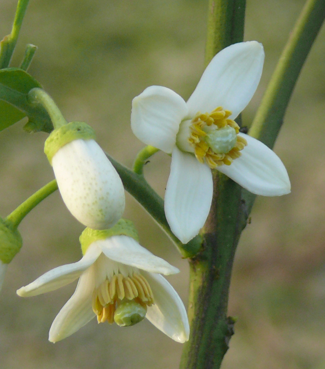 Pomelo flower, photo taken in Hong Kong